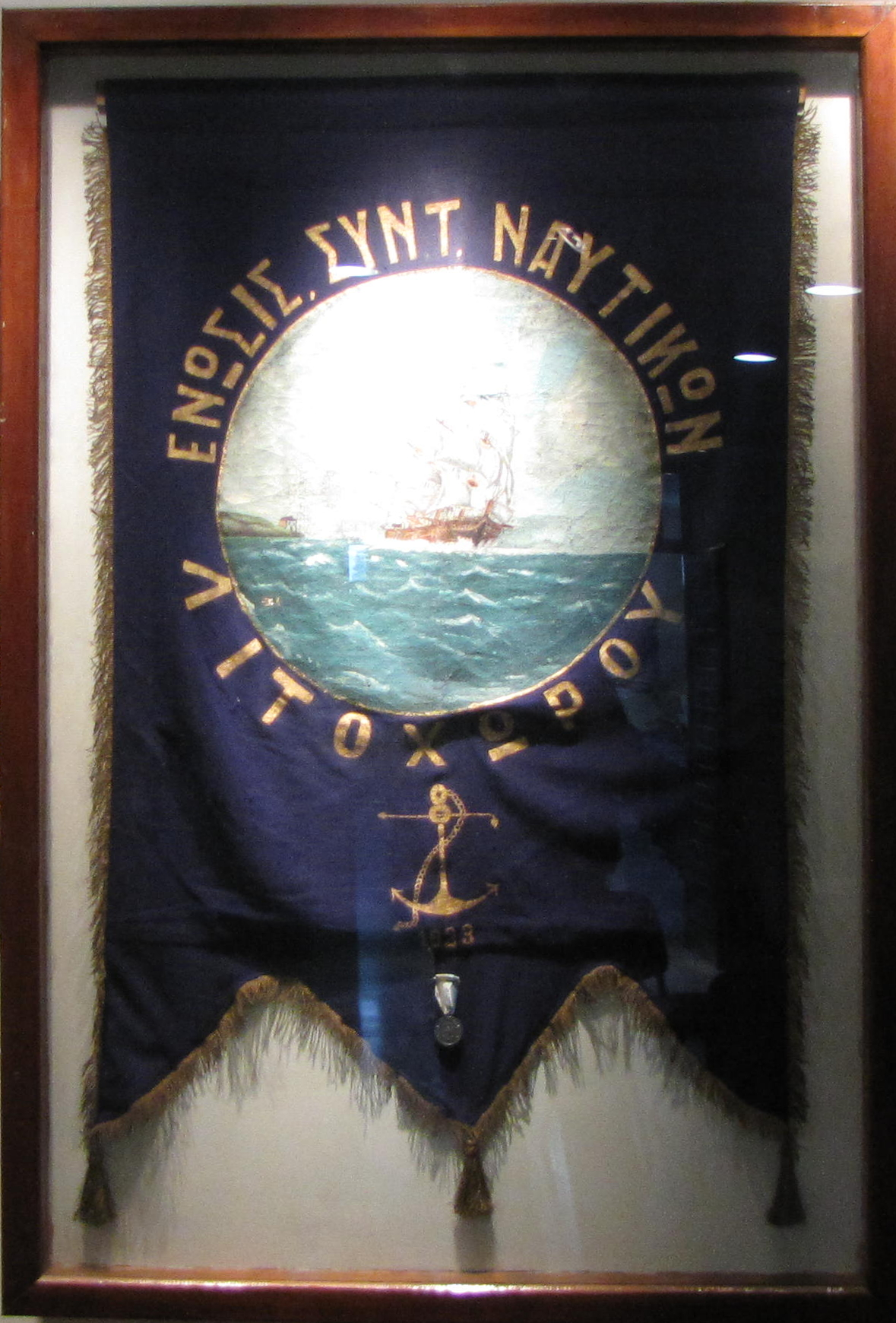 Banner of the Mariner of Litochoro